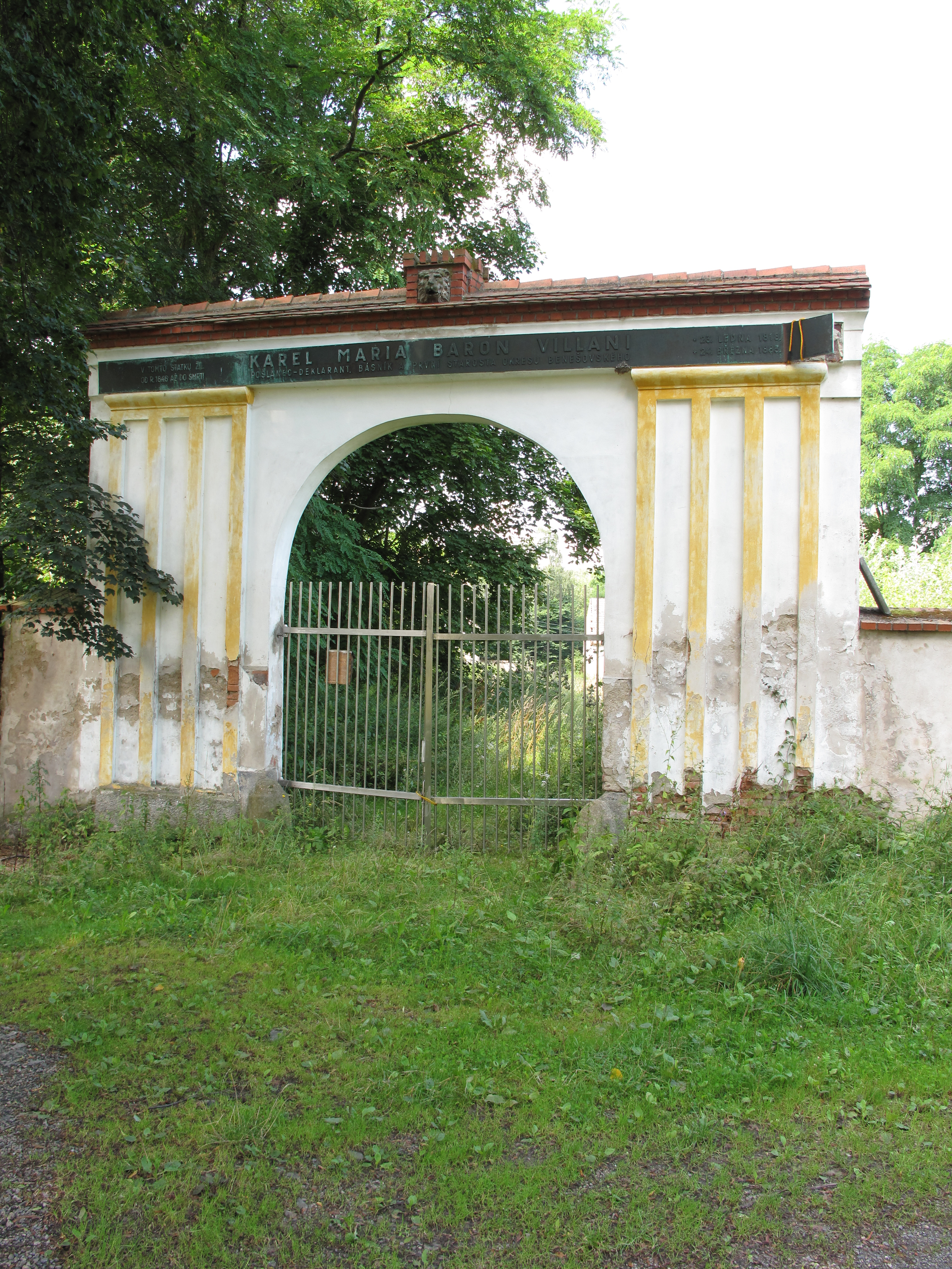 This photograph was taken within the scope of the second year of the 'Czech Municipalities Photographs' grant.